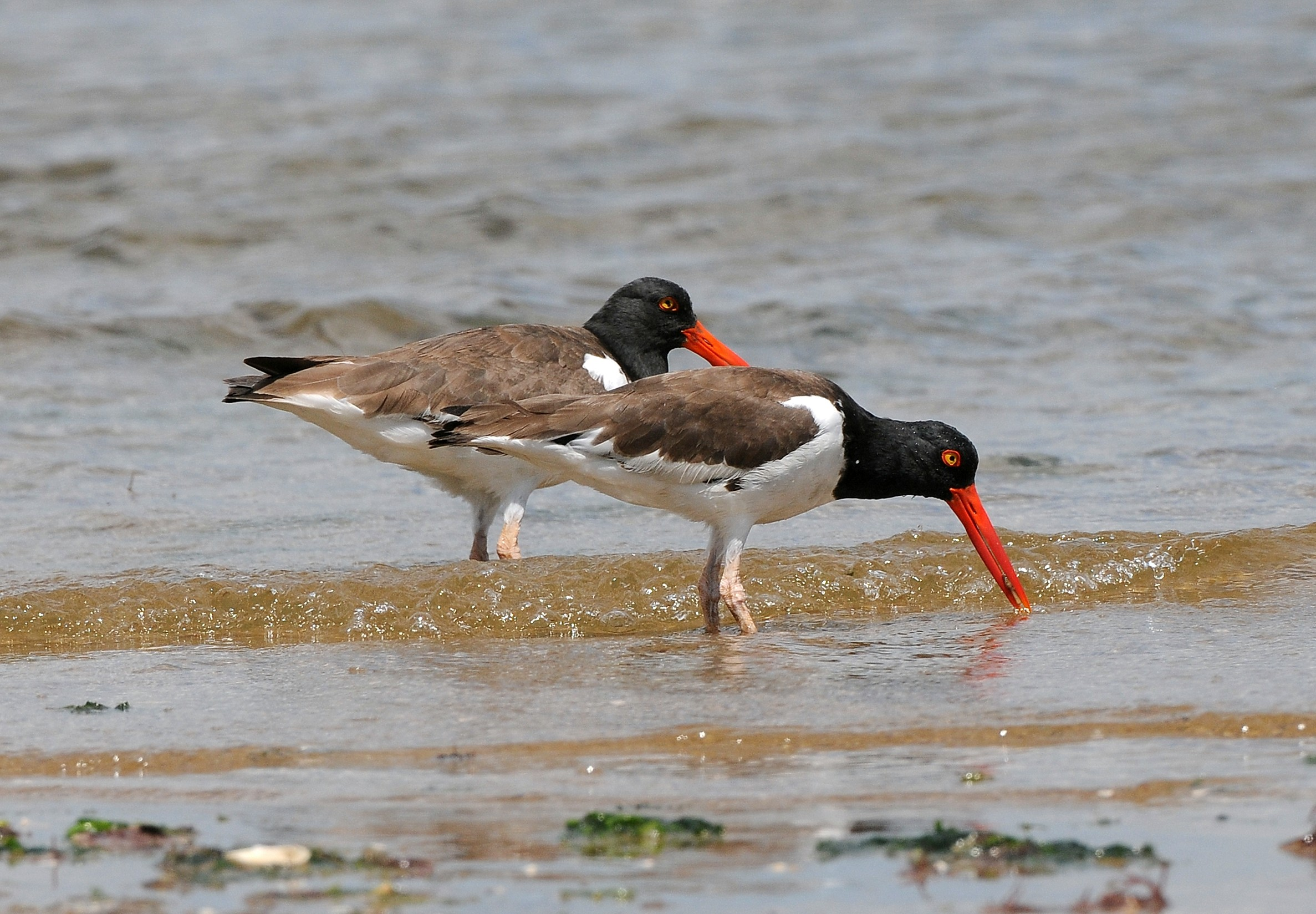 American Oystercatchers on Union Beach, New Jersey, USA.